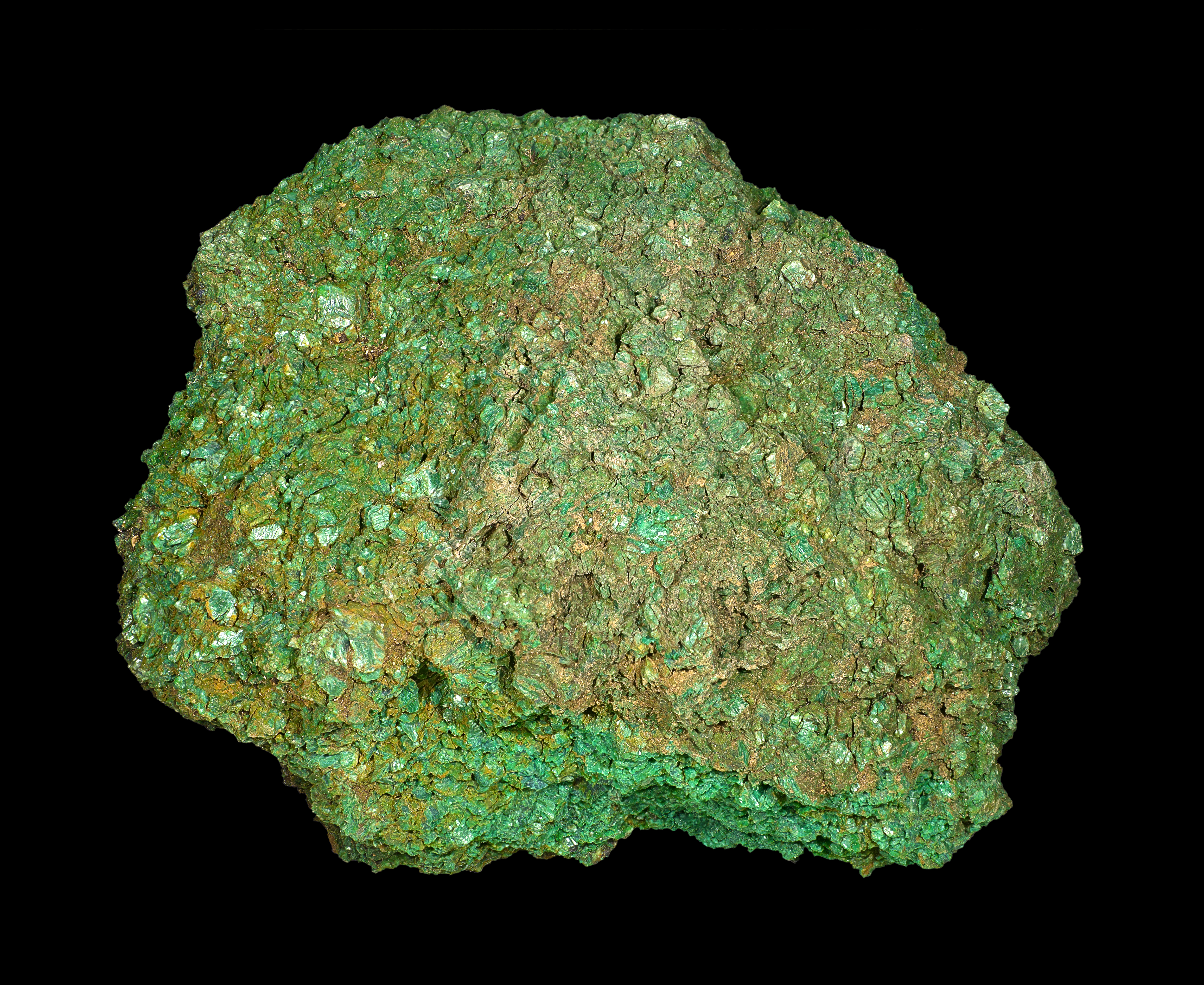 Népouite Locality: Népoui Mine, Poya, en: North Province, New Caledonia, New Caledonia- Deposit topotype Size: 14.4 x 11.8 x 7 cm 1064.7g